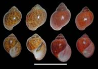 photo of apertural and abapertural views of shells of Hemisinus cubanus.